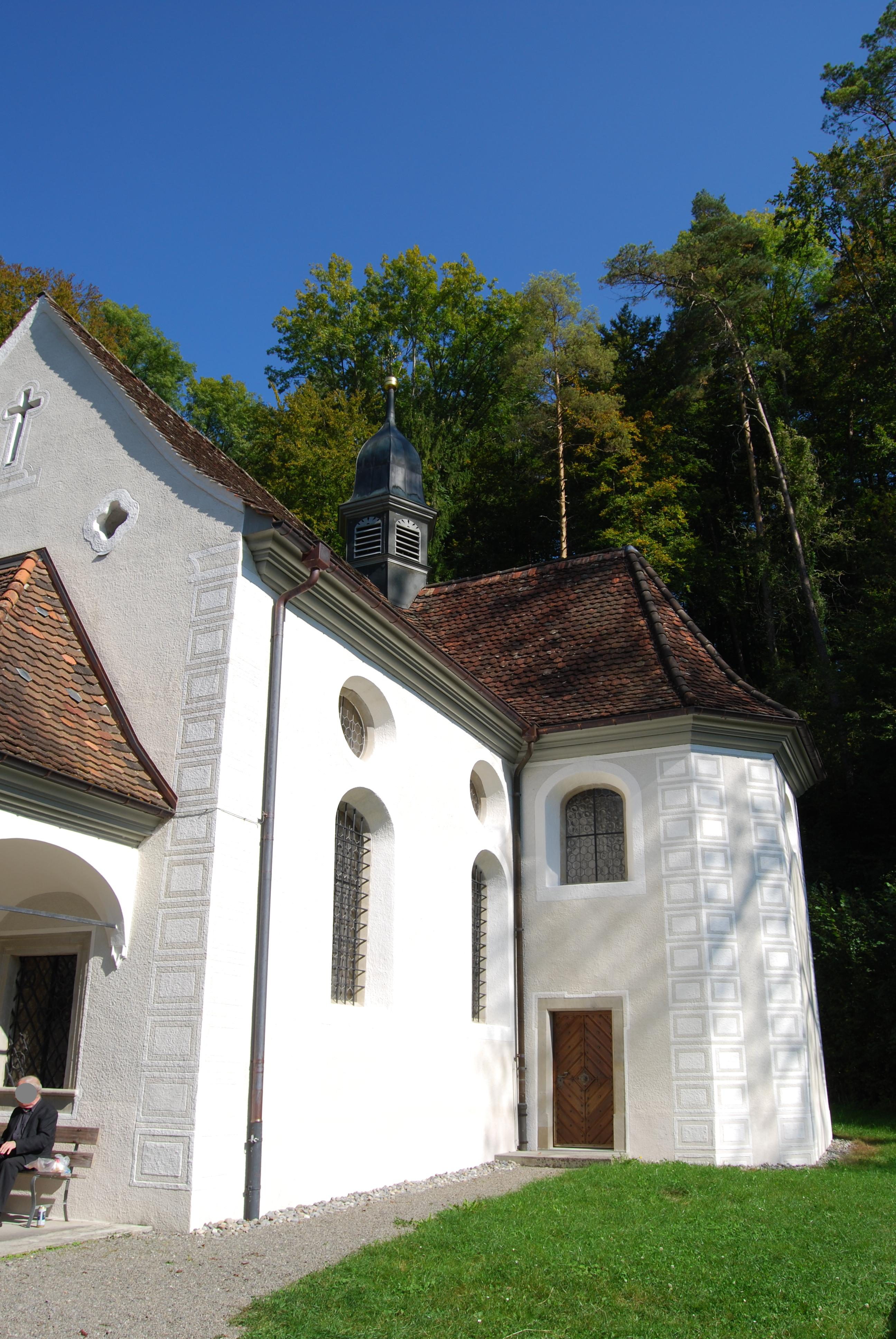 Jonental pilgrimage chapel, canton of Aargau, SwitzerlandEsperanto: Pilgrima kapelo Jonental, Kantono Argovio, Svislando